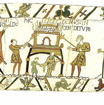 Bayeux Tapestry. Scene 47